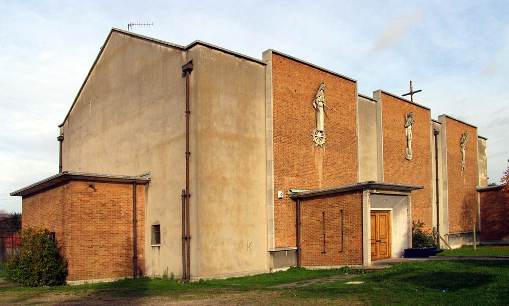 St Katherine, Westway, London W12, near to Acton, Ealing, Great Britain.